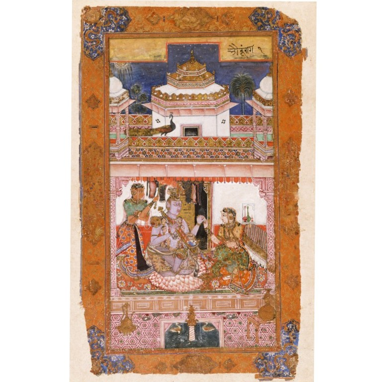 Bhairava raga, Ragamala, Chunar, near Varanasi, 1591. Opaque watercolour on paper, by pupils of Mir Sayyid 'Ali, an artist at the court of the Mughal Emperor, Akbar.